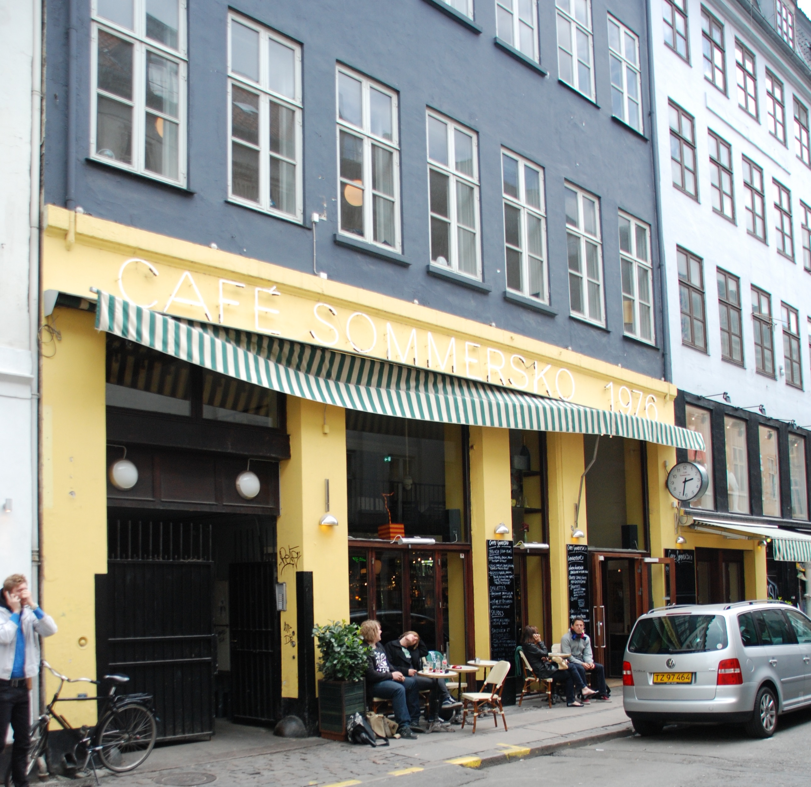 Outside Café Sommersko, Kronprinsensgade 6, Copenhagen